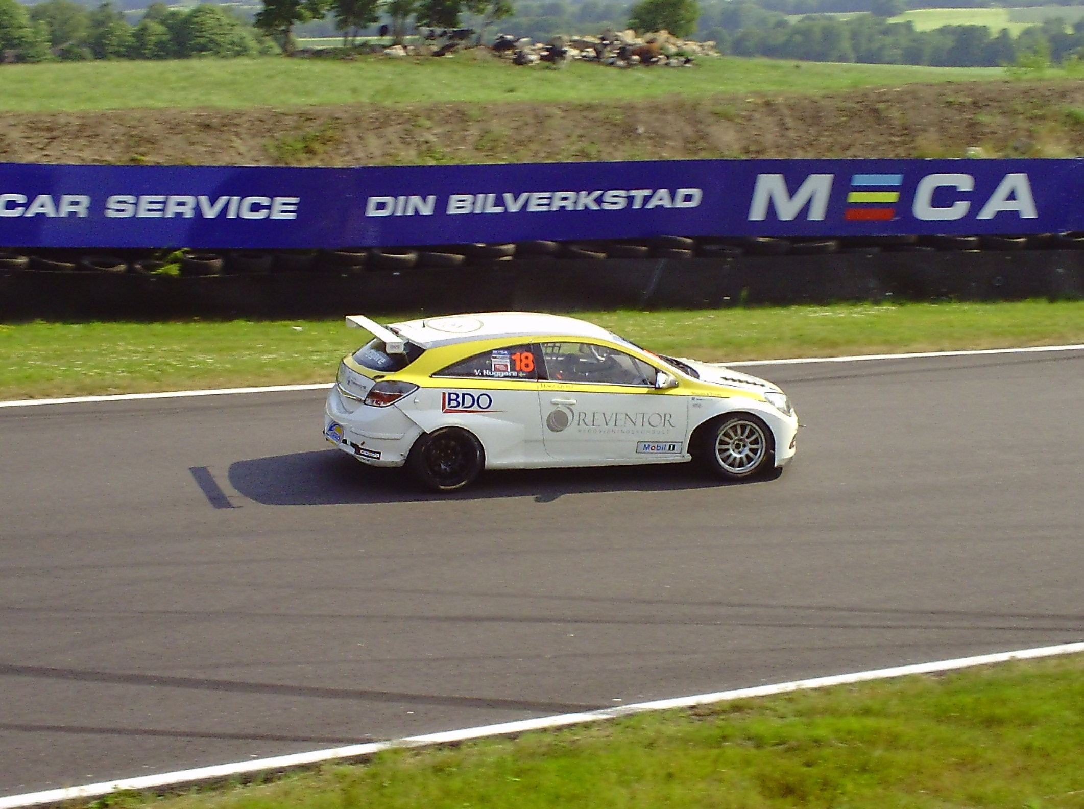 Viktor Huggare in a Opel Astra Coupé for Huggare Racing in Swedish Touring Car Championship at Falkenbergs Motorbana 2010.